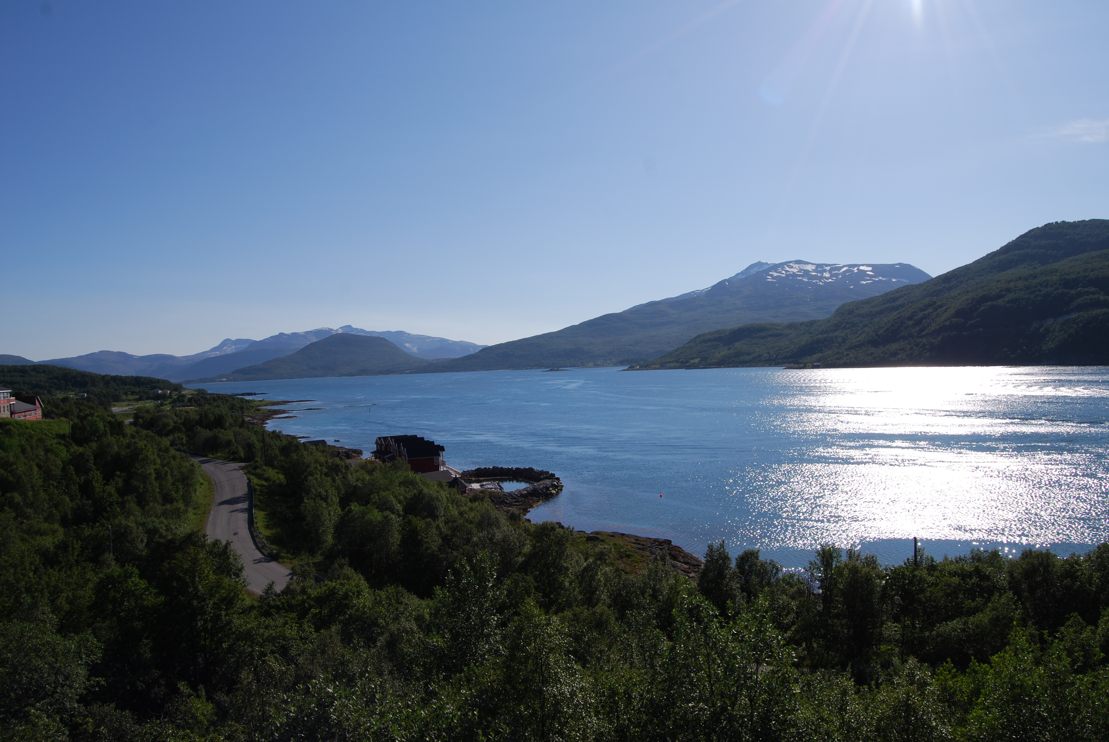 Fjord Lavansfjorden, Norway.